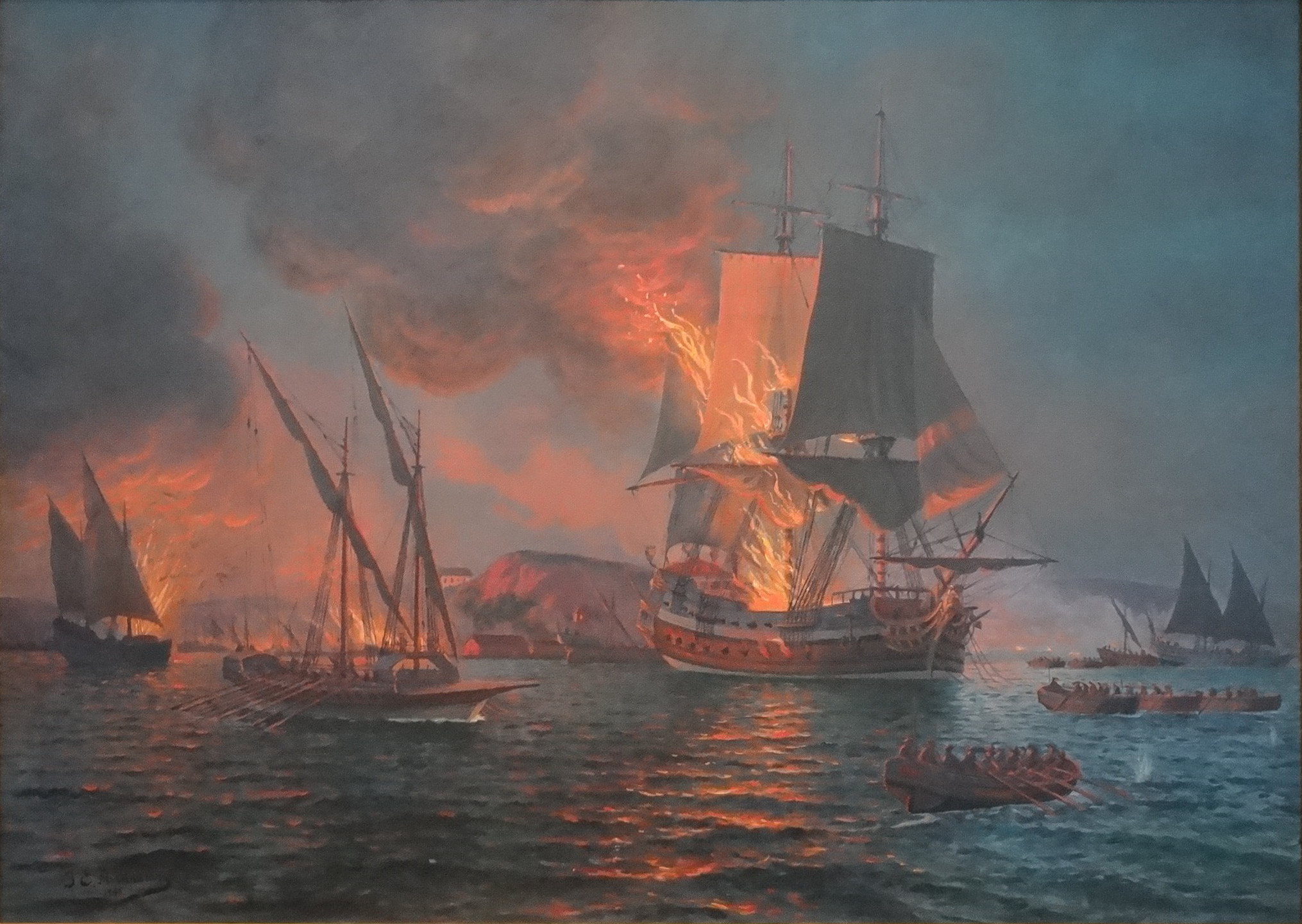 Painting by the Danish born artist JC Andresen in Göteborg Maritime Museum & Aquarium, showing the privateer frigate Le Comte de Mörner on fire on Göta älv river, following the surprise attack by Danish admiral Tordenskjold at the naval base Nya Varvet close to Gothenburg, Sweden, on the night and early morning 27th September 1719.